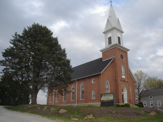 Zion Lutheran Church, Longtown, Missouri